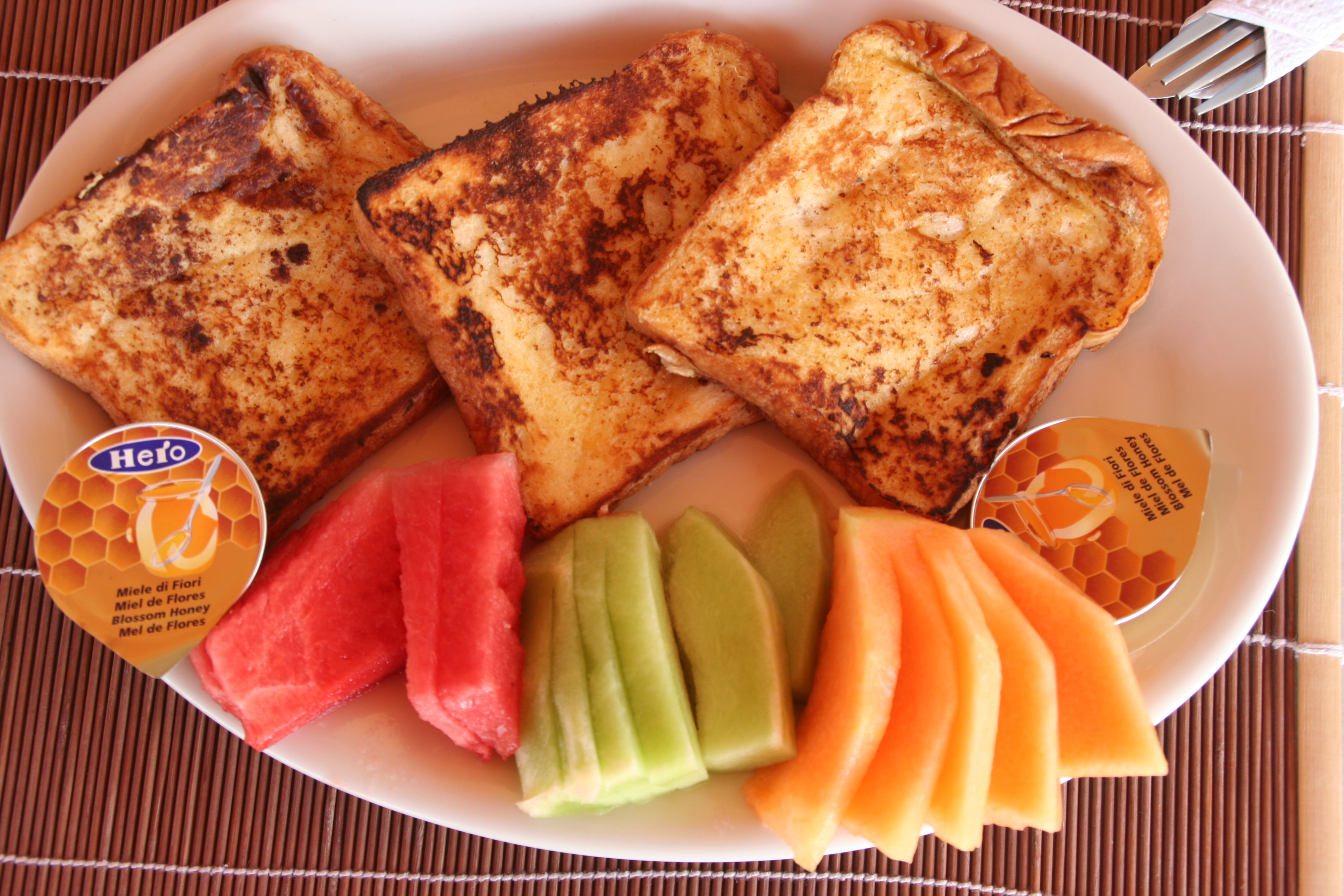 This "French toast" was made in Guatemala; the plate includes the toast, papaya, melon and watermelon.